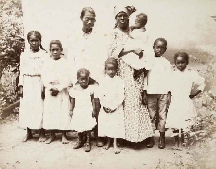 Photographic portrait of a family. The father is Chinese and the mother is Creole. She is wearing a Koto.